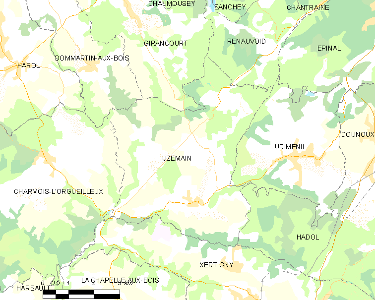 Map of French municipality Uzemain